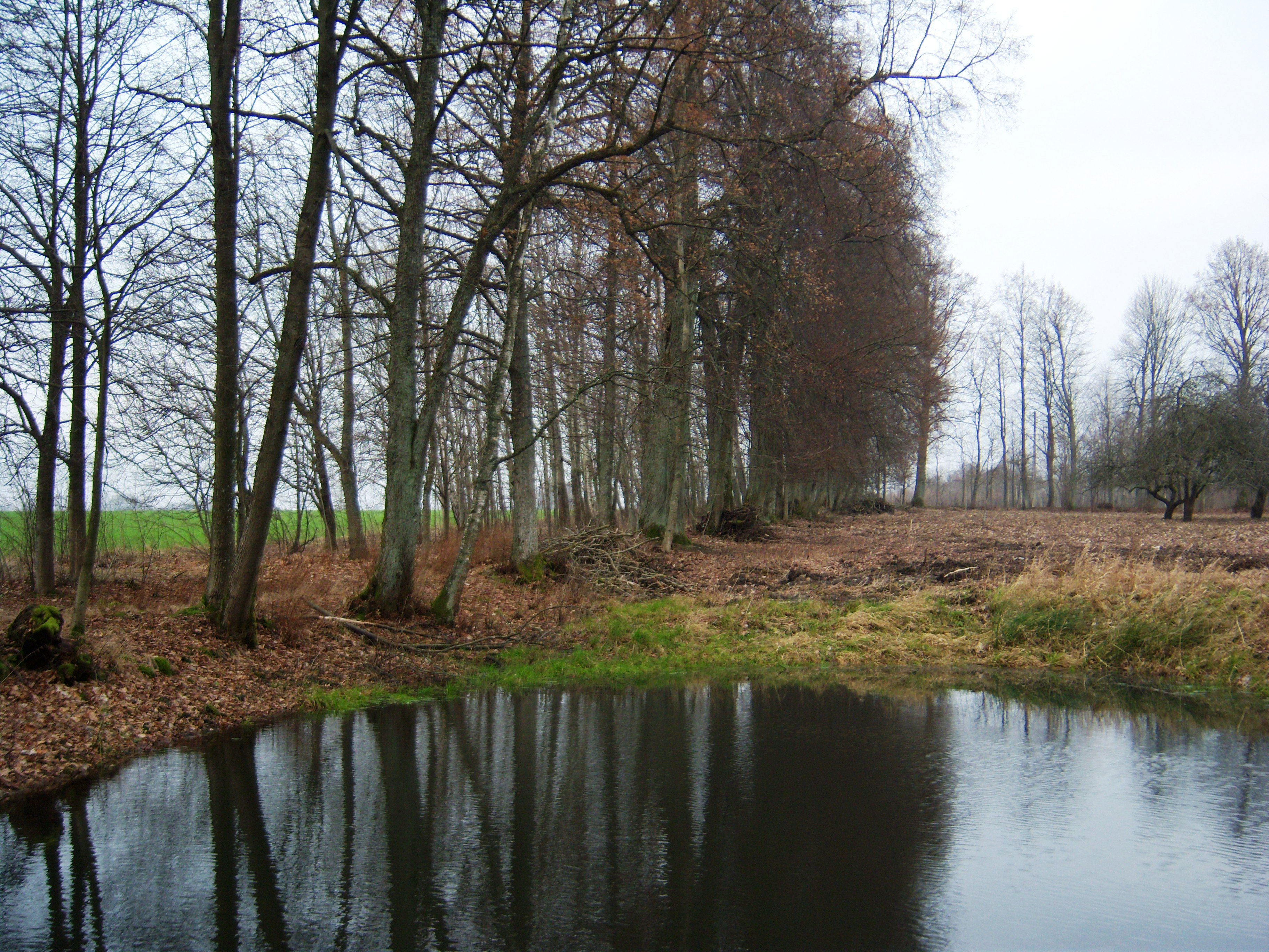 Former Julinai manor, linden alley, Raseiniai District, Lithuania